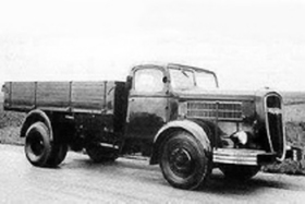 Škoda 706 heavy truck